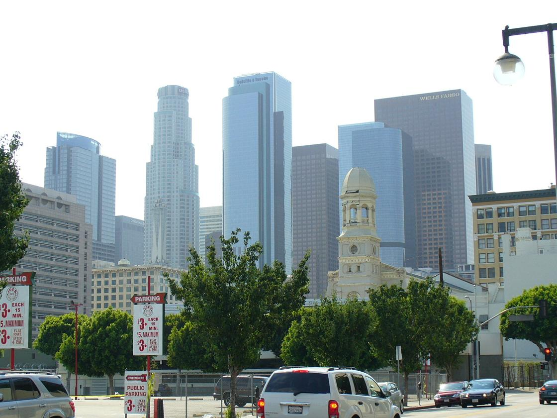 Downtown Los Angeles from Little Tokyo